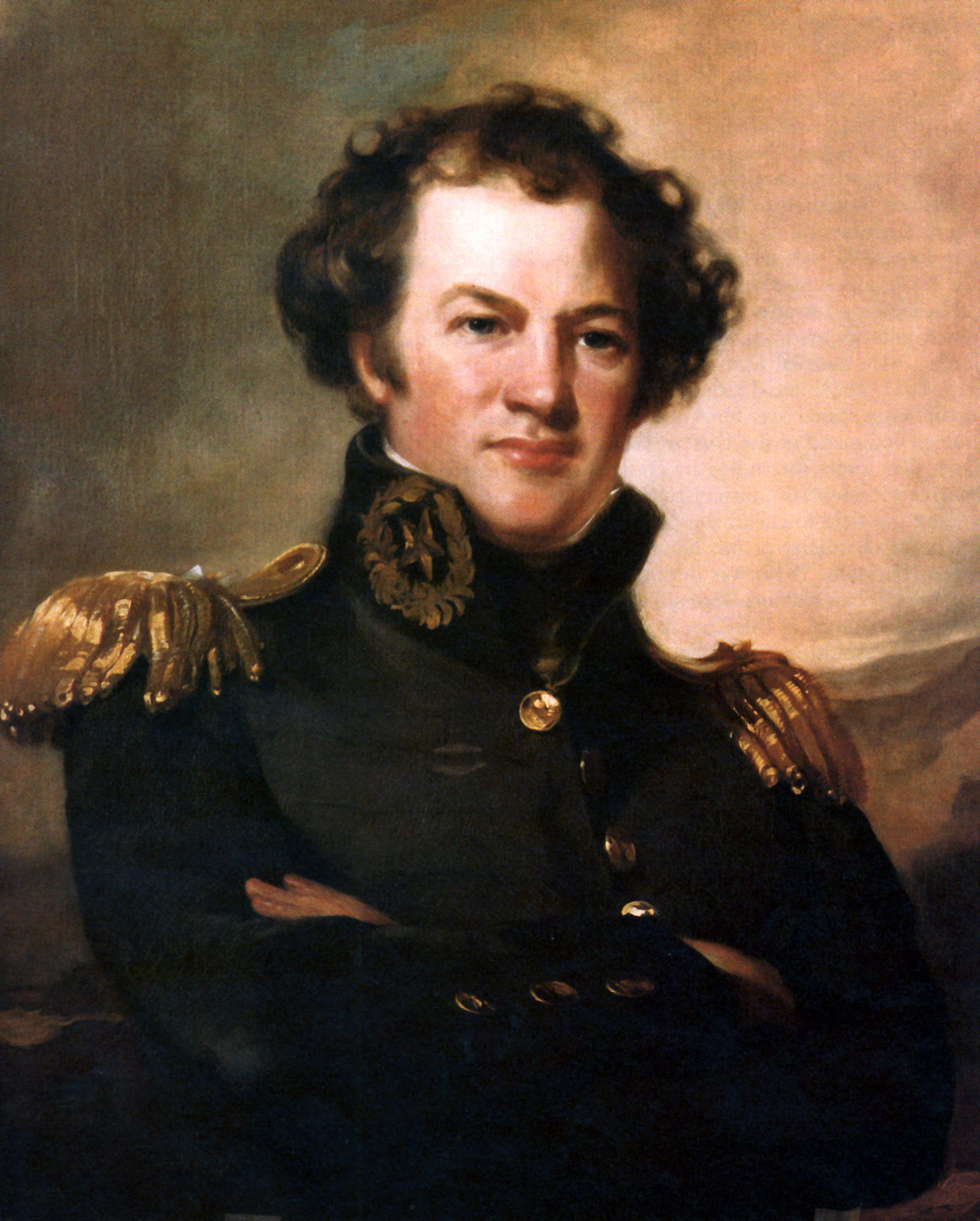 Colour corrected portrait of Maj. Gen. Alexander Macomb